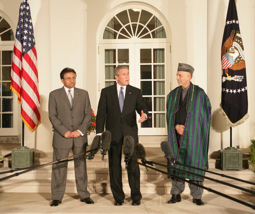 President George W. Bush stands with President Pervez Musharraf of the Islamic Republic of Pakistan, left, and President Hamid Karzai of the Islamic Republic of Afghanistan, Wednesday evening, Sept. 27, 2006, in the Rose Garden at the White House speaking to reporters prior to the three leaders attending a private dinner. full story